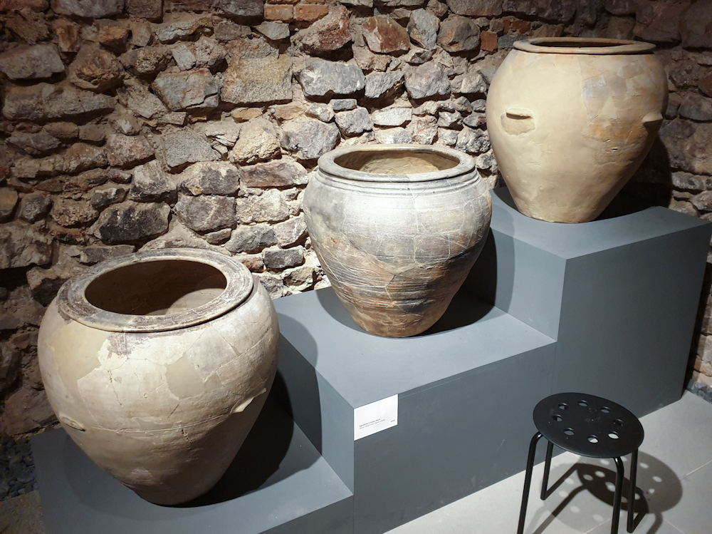 Celtic_ceramics_in_the_Historical_Museum,_Bratislavalabel QS:Len,"Celtic_ceramics_in_the_Historical_Museum,_Bratislava"label QS:Lhu,"Kelta agyagedények a pozsonyi Történelmi Múzeumban"